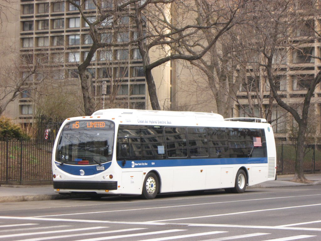 MTA New York City Bus DesignLine #1304 has reached its last stop on the M5 route by New York University, ready to return to Washington Heights.